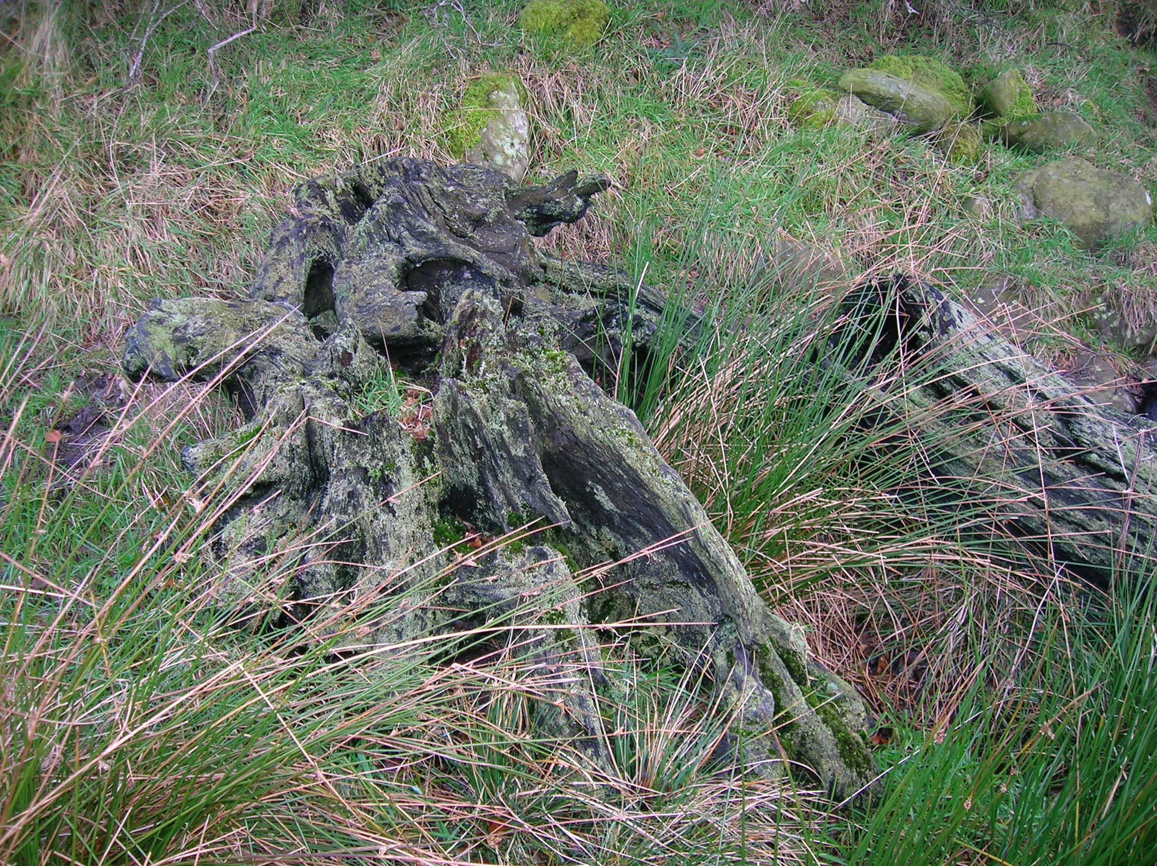 Bog oak stumps from South Auchenmade raised mire, Stumpy Knowe, North Ayrshire, Scotland